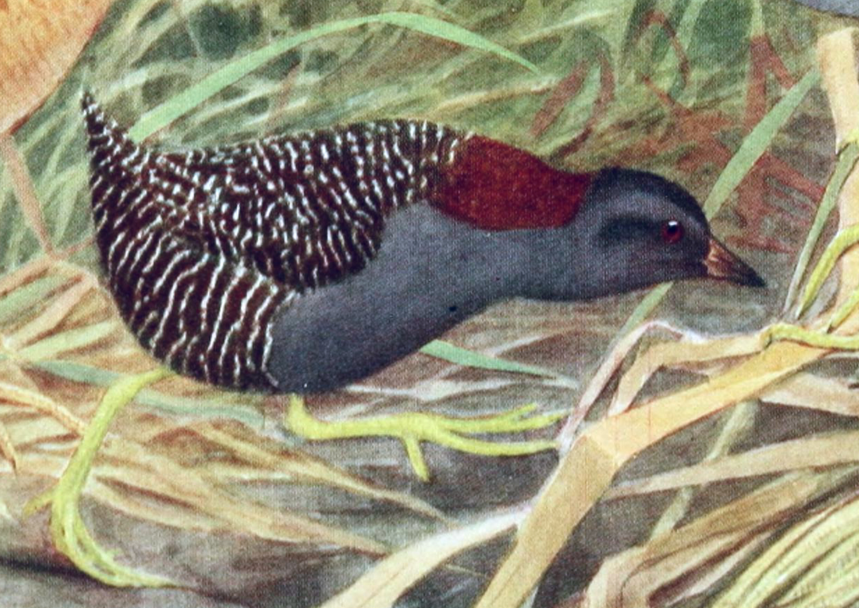 Black Rail, Laterallus jamaicensis, offset reproduction of watercolor